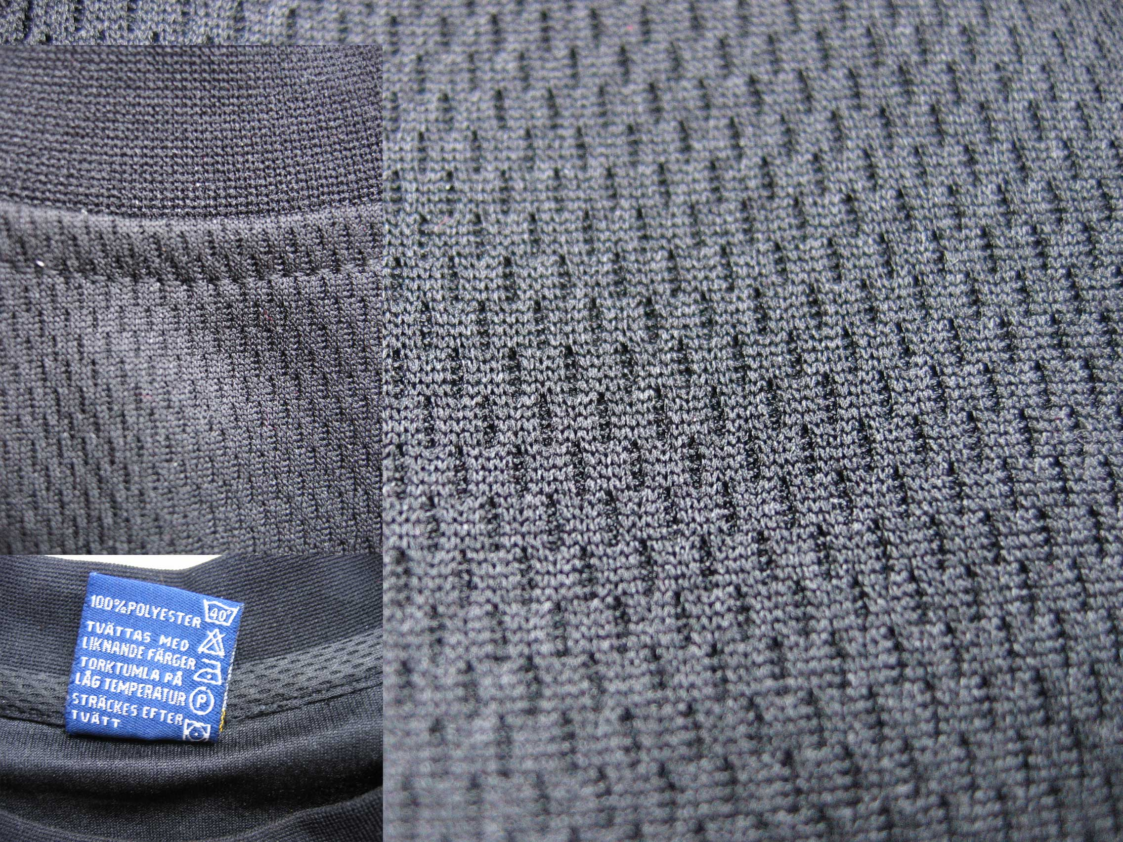 washing instructions label for 100% polyester shirt